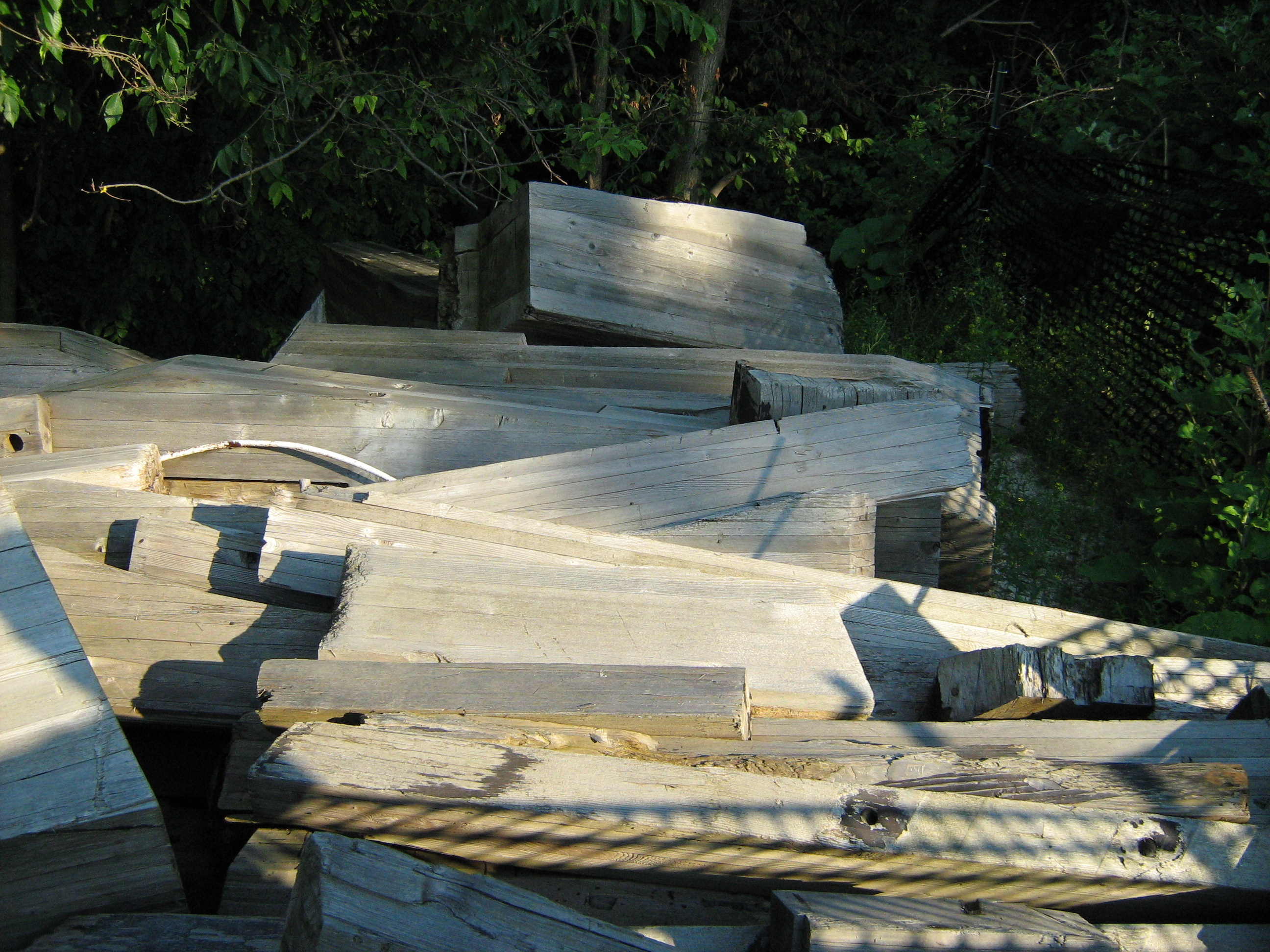 The remains of Homage, destroyed by a backhoe and laid to rest pending outcome of lawsuit.